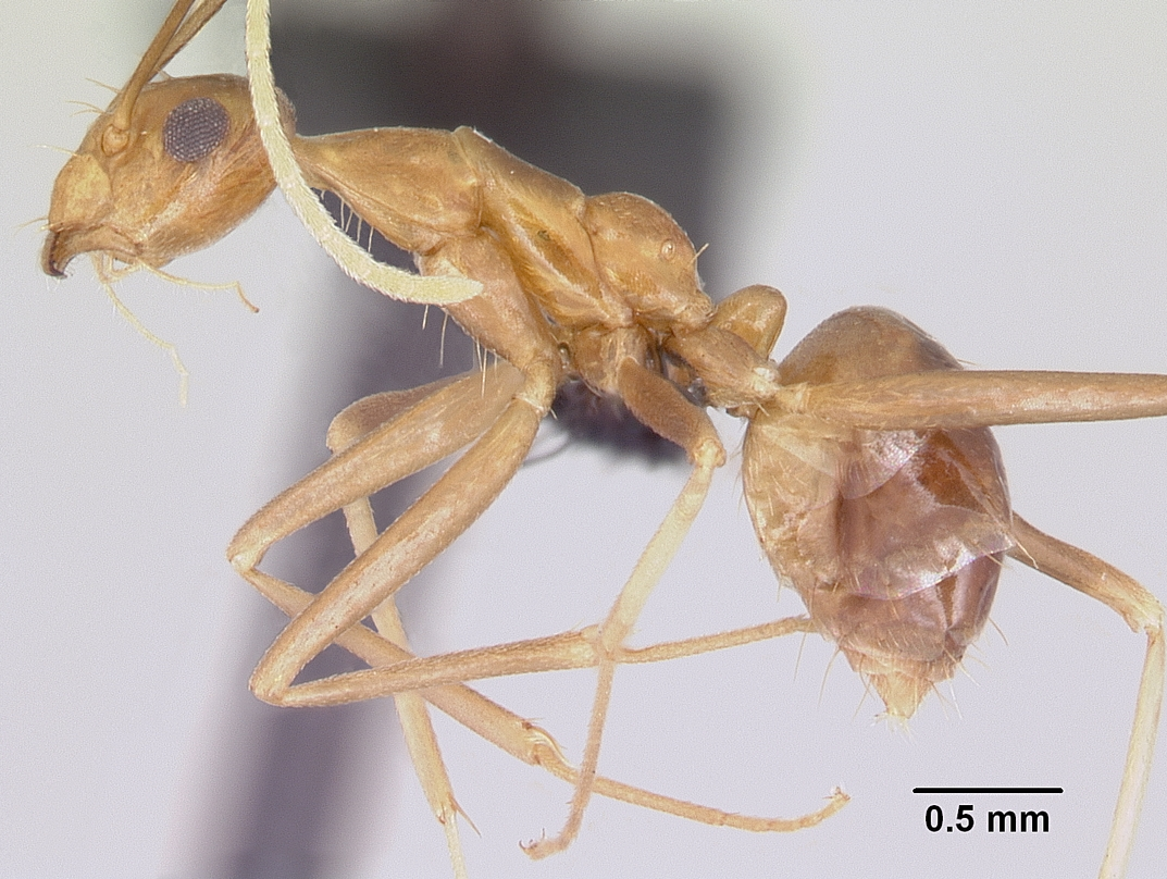 Profile view of ant Anoplolepis gracilipes specimen casent0064816.